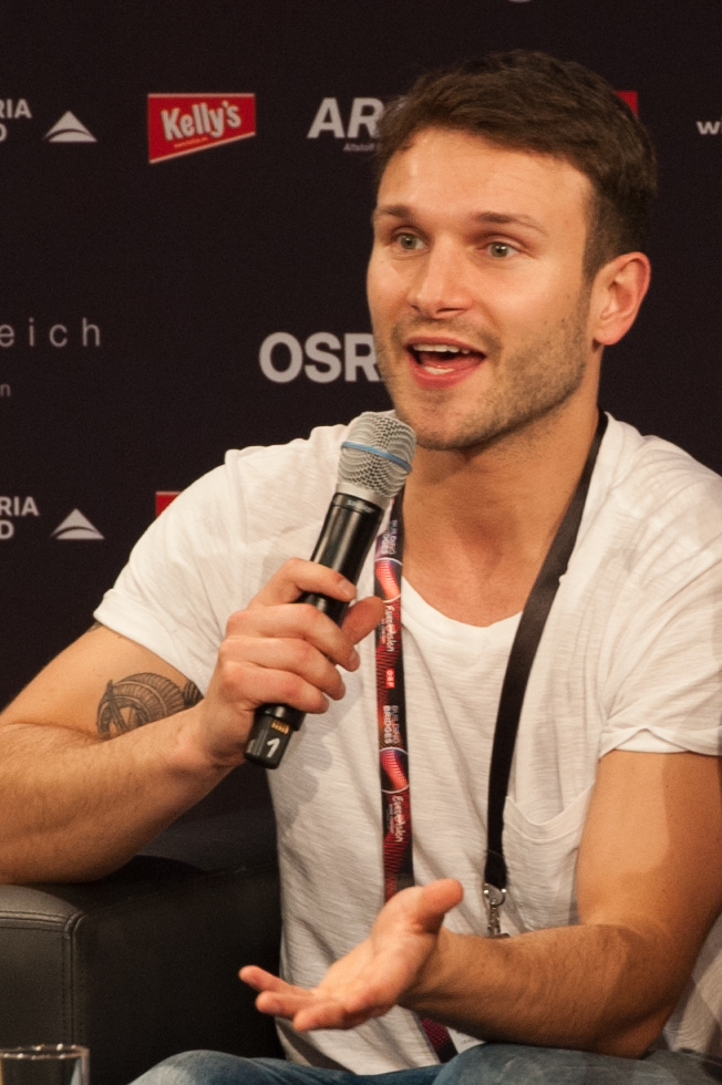 Eurovision Song Contest Vienna 2015: Vaidas Baumila